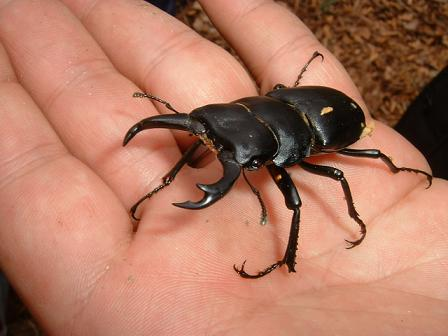 Stag beetle male, Ibaraki Prefecture, Japan